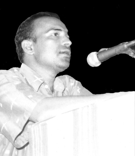 This is a photo of Vanikavi Manmohan Acharya addressing International Kalidas Samaroha in Ujjain, M.P.,India